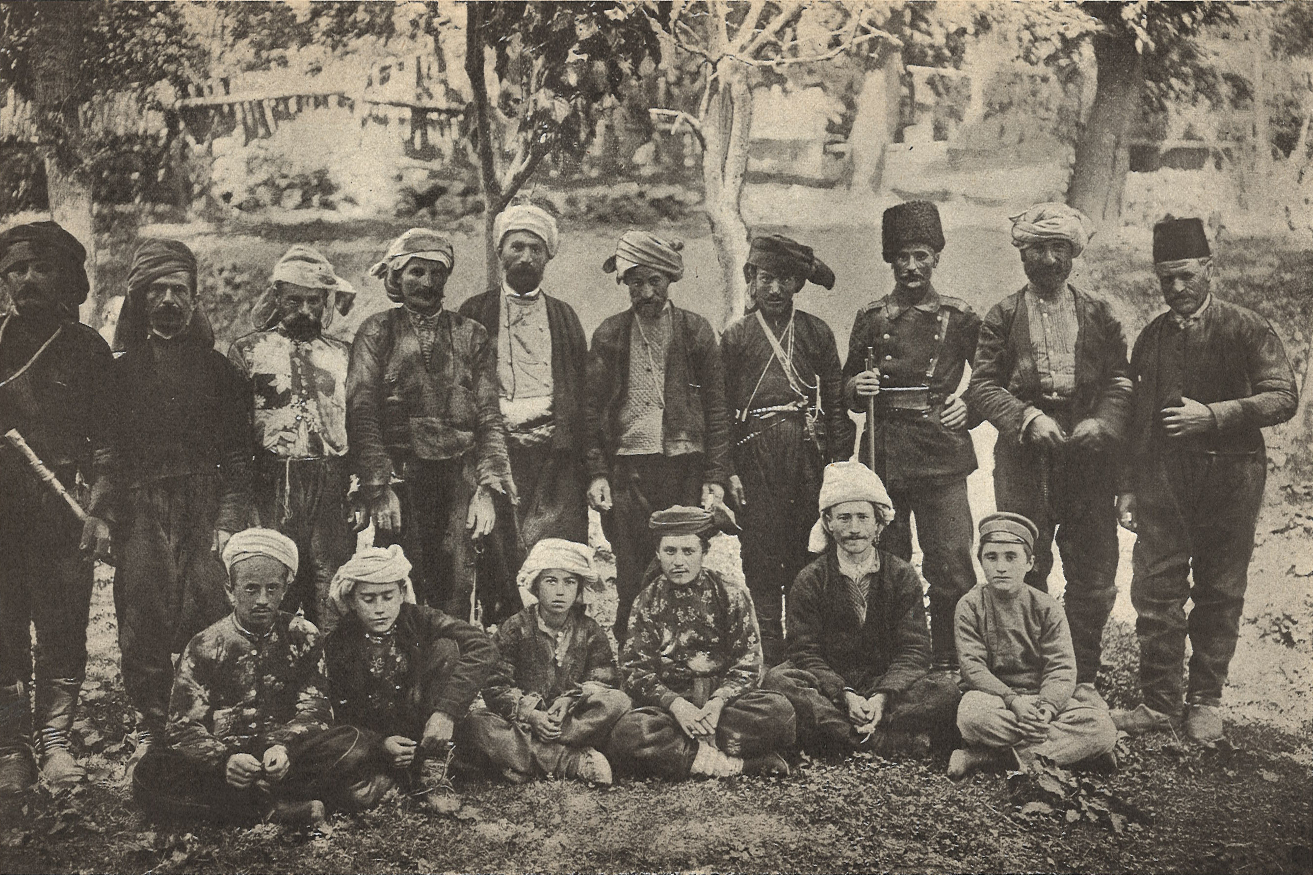 Imerkhevian Georgians from Tskalsimeri, now Balıklı, Turkey. From Nicholas Marr's dairy of his travels to Shavsheti and Klarjeti (1911).